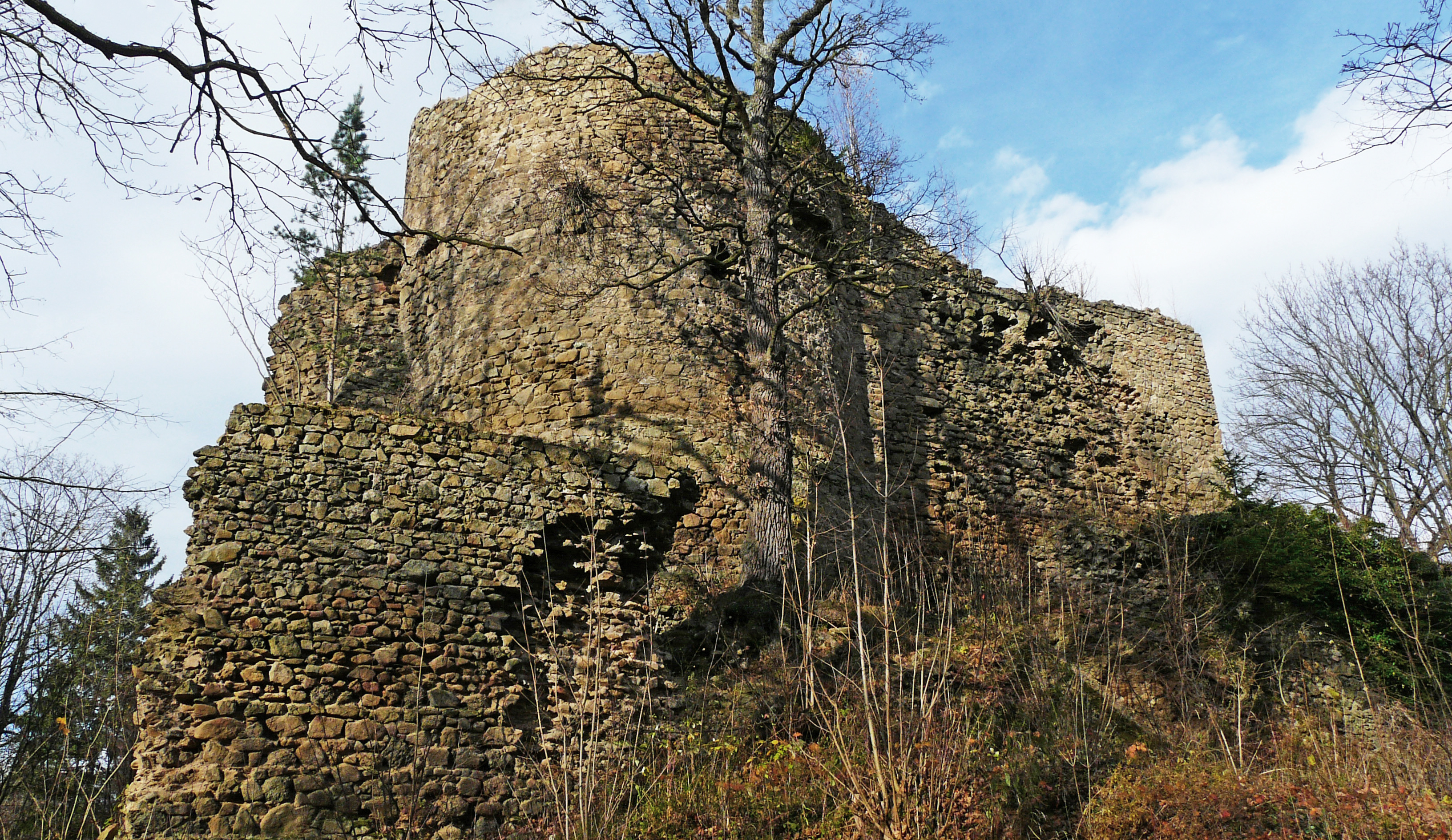 caste Cisy, 12-13 century, ruins